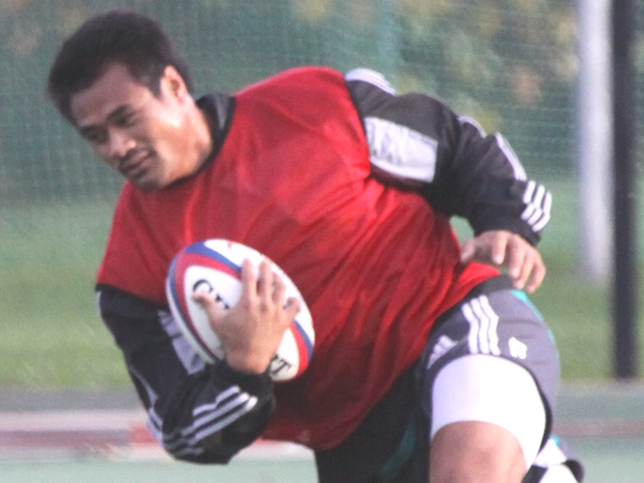 New Zealand rugby union player Isaia Toeava